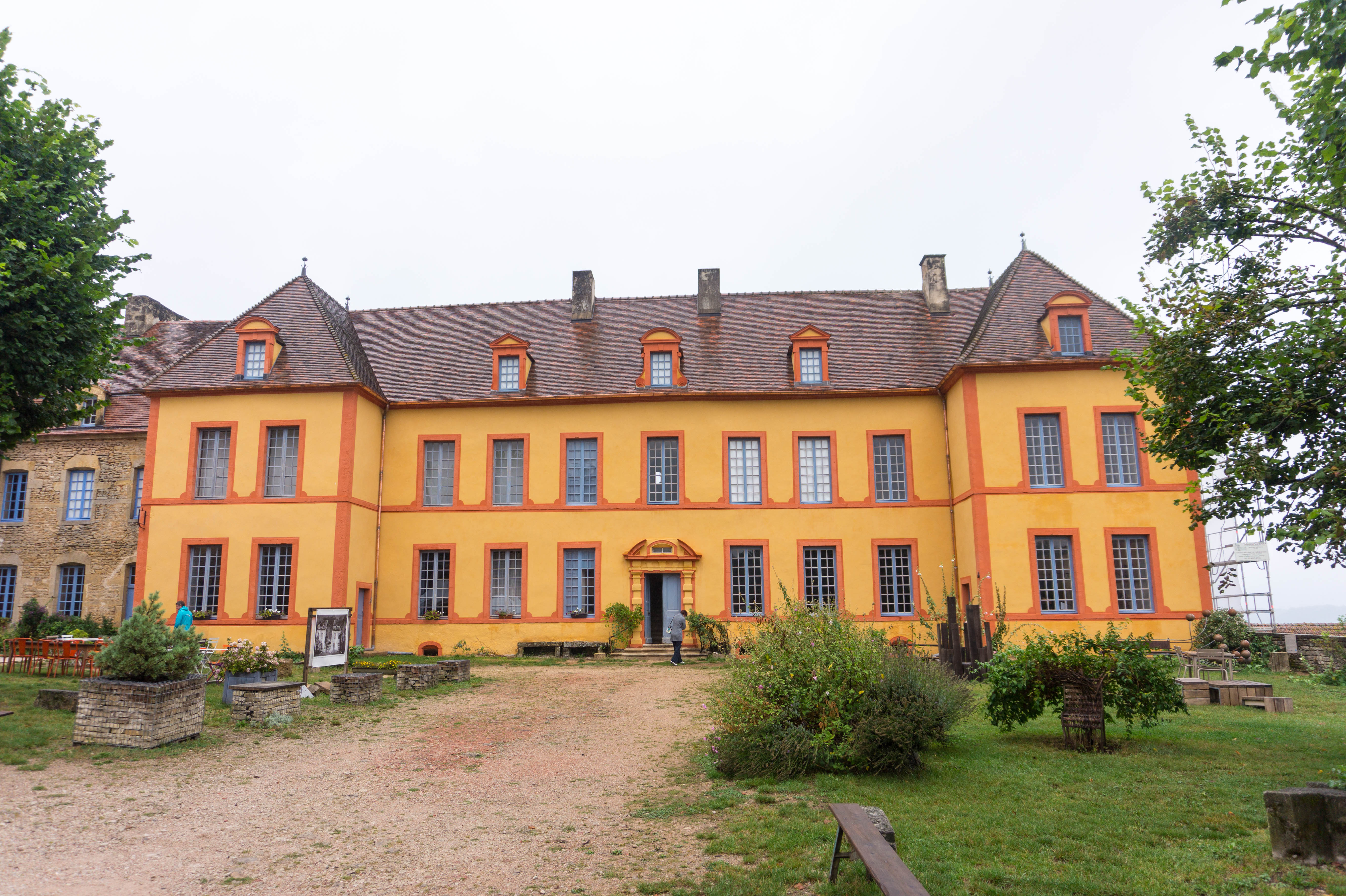 Castle of Sainte-Colombe-en-Auxois, France. Monument historique.